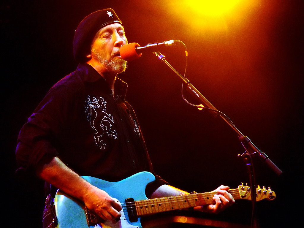 Richard Thompson 6-21-07 at a Brooklyn Celebrates concert in Prospect Park, Brooklyn NY photographed by Anthony Pepitone